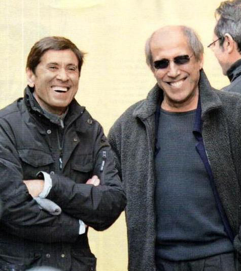 Adriano Celentano and Gianni Morandi.